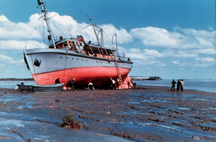 United States Coast and Geodetic Survey survey ship USC&GS Lester Jones (ASV-79) aground on the mudflats of the Nushagak River in the Territory of Alaska during low tide